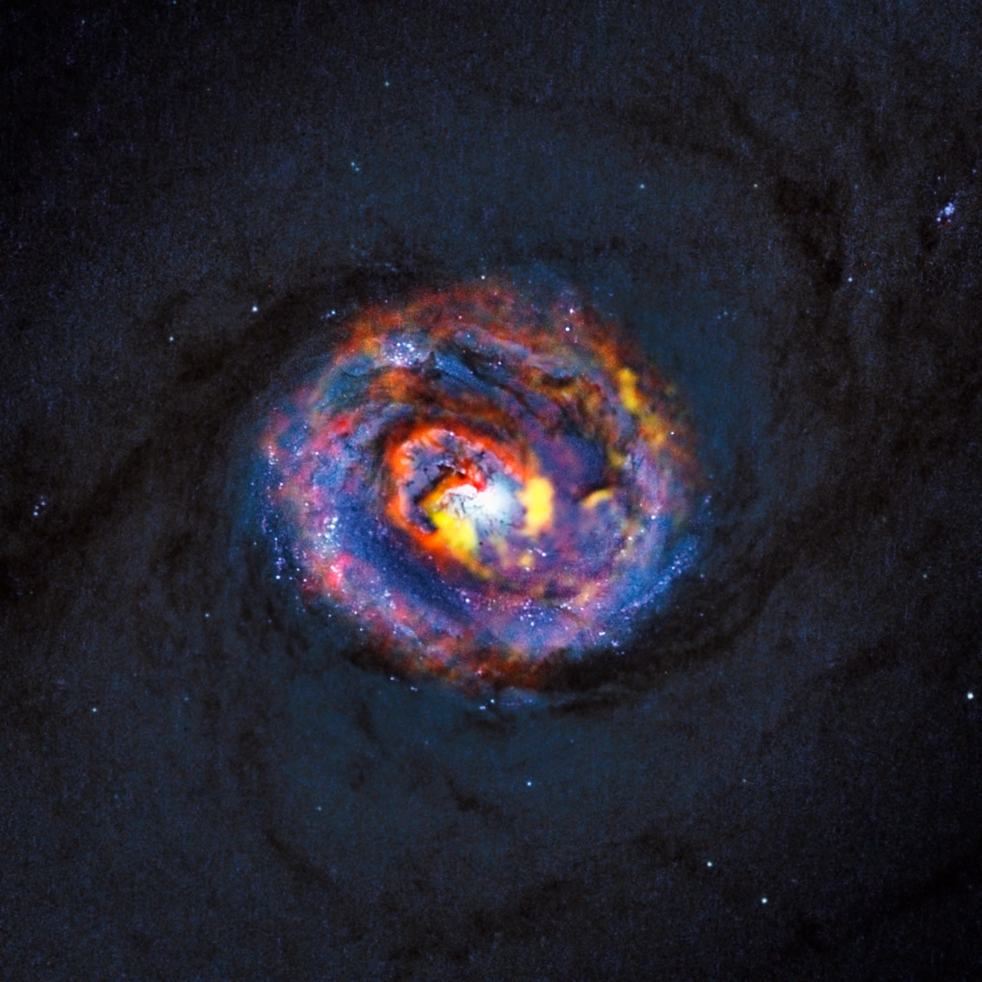 This detailed view shows the central parts of the nearby active galaxy NGC 1433. The dim blue background image, showing the central dust lanes of this galaxy, comes from the NASA/ESA Hubble Space Telescope. The coloured structures near the centre are from recent ALMA observations that have revealed a spiral shape, as well as an unexpected outflow, for the first time.